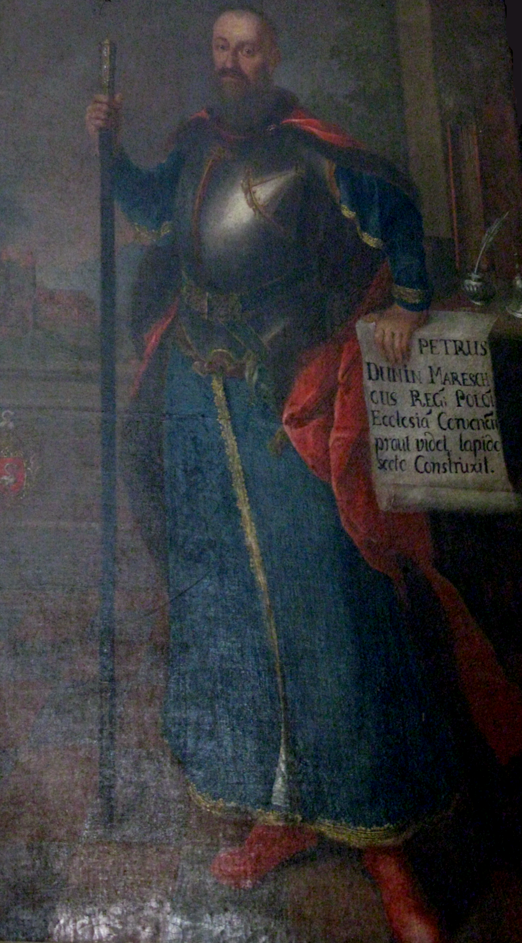 Piotr Dunin Court Marshal of the Polish Crown